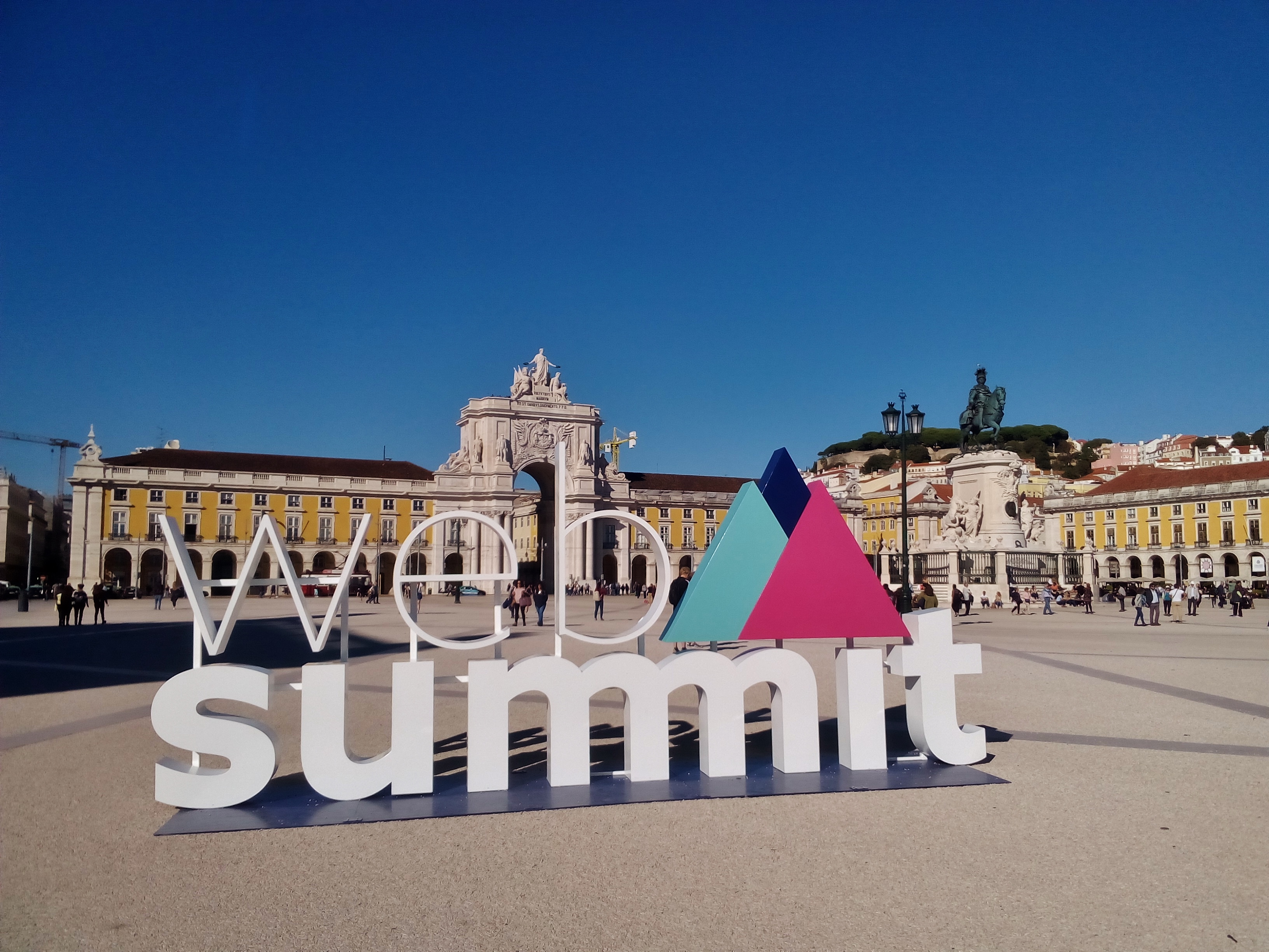 WebSummit sign on the Commerce Square (Praça do Comércio), in Lisbon, Portugal, on 6 November 2017.